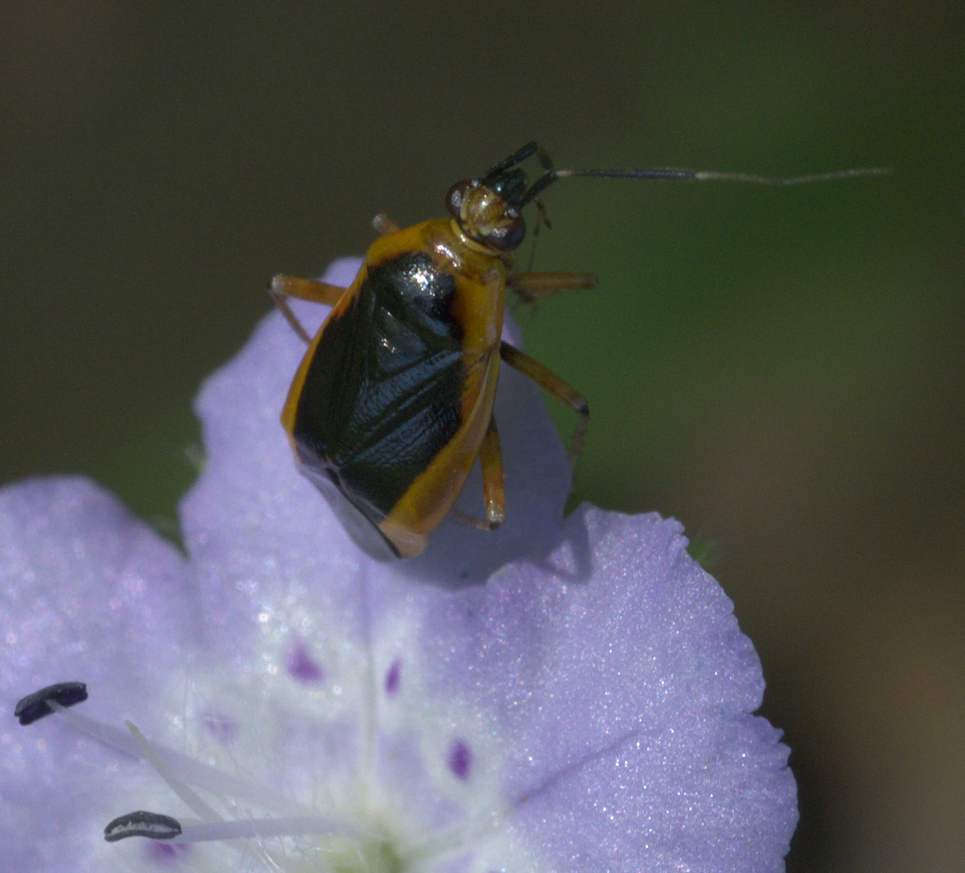 Metriorrhynchomiris dislocatus, Family: Plant Bugs, Metriorrhynchomiris dislocatus (plant bug), ID Confidence: 87